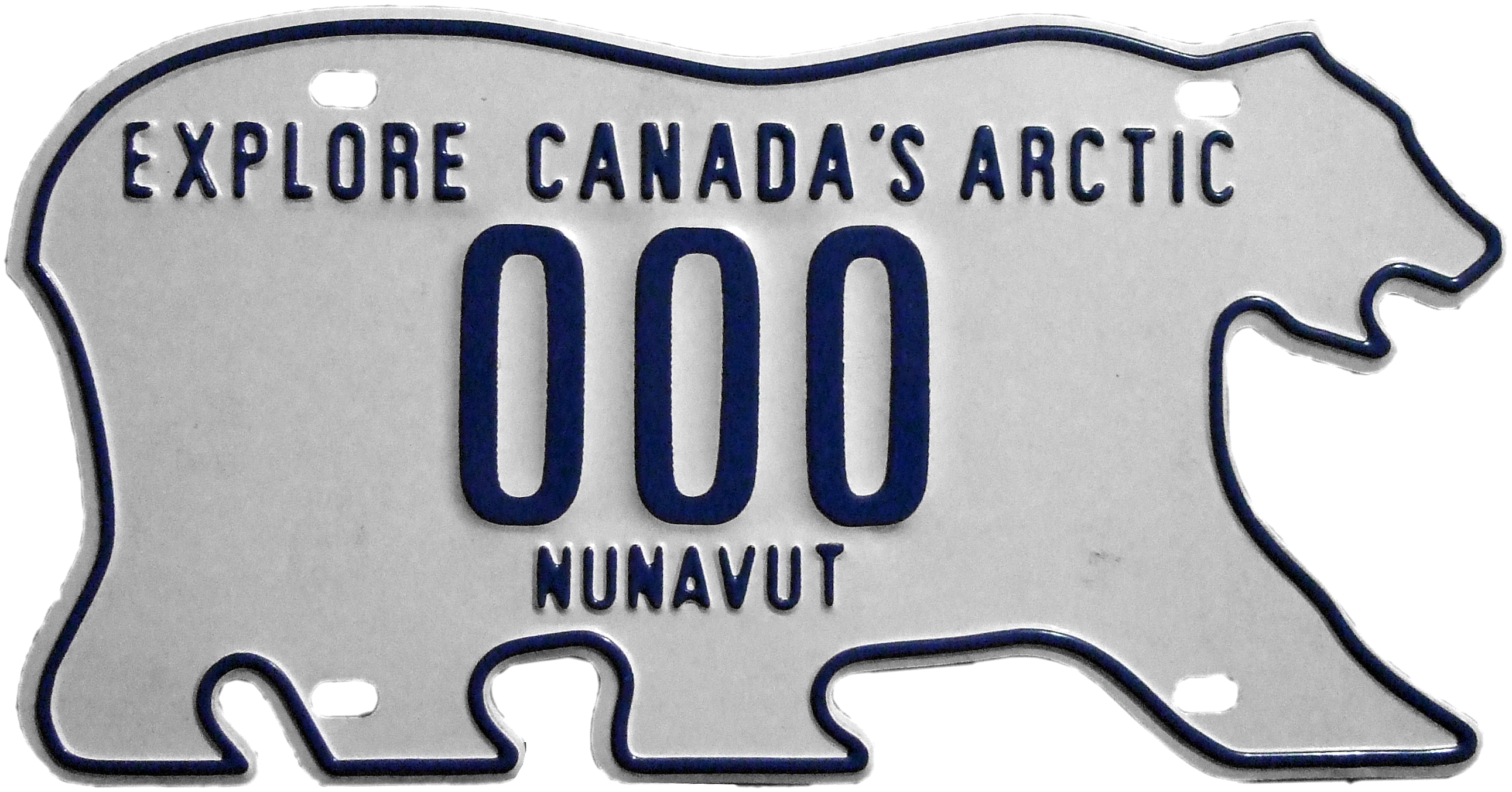 A sample vehicle registration plate of Nunavut.